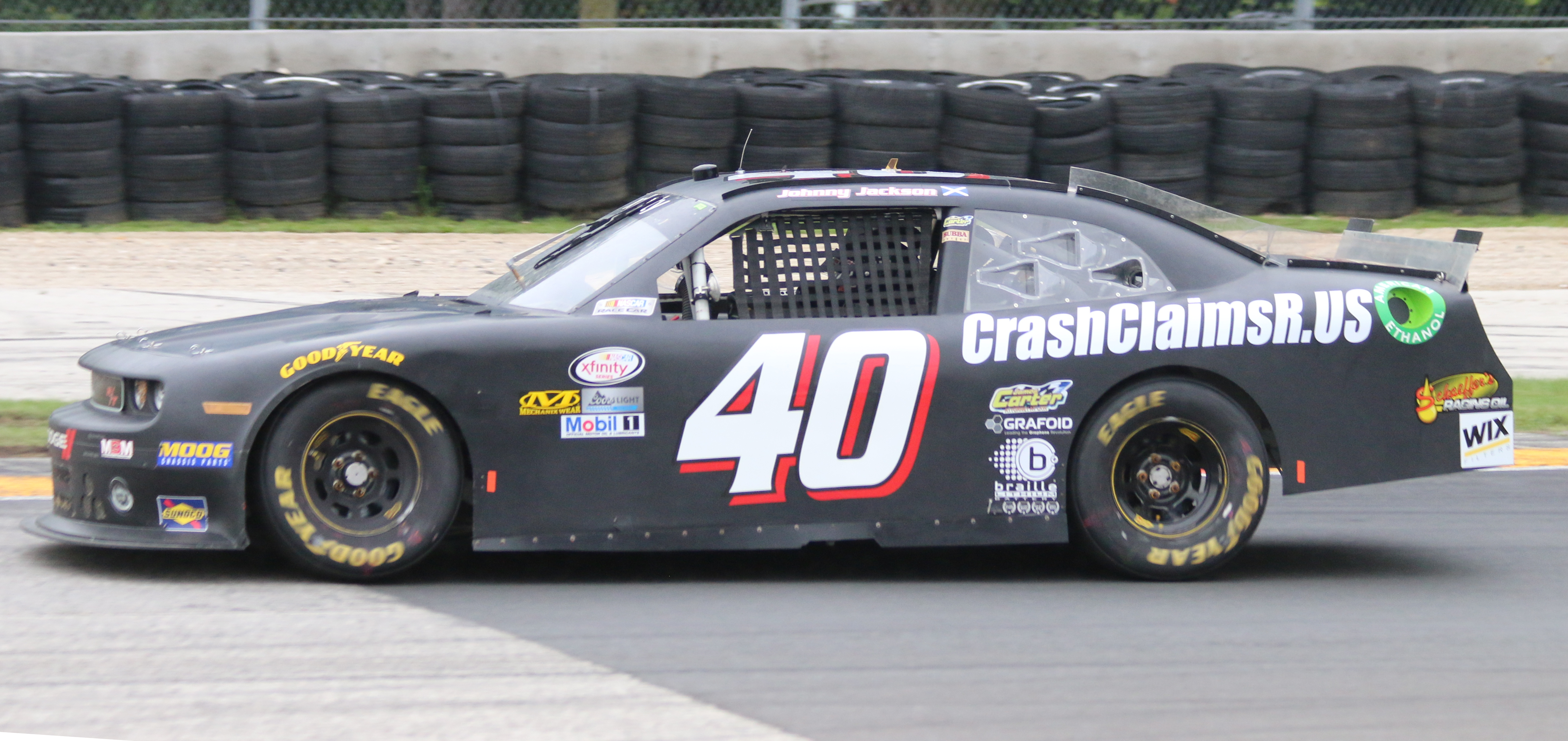 The Dodge Challenger of Johnny Jackson at the NASCAR Xfinity Series Road America 180.